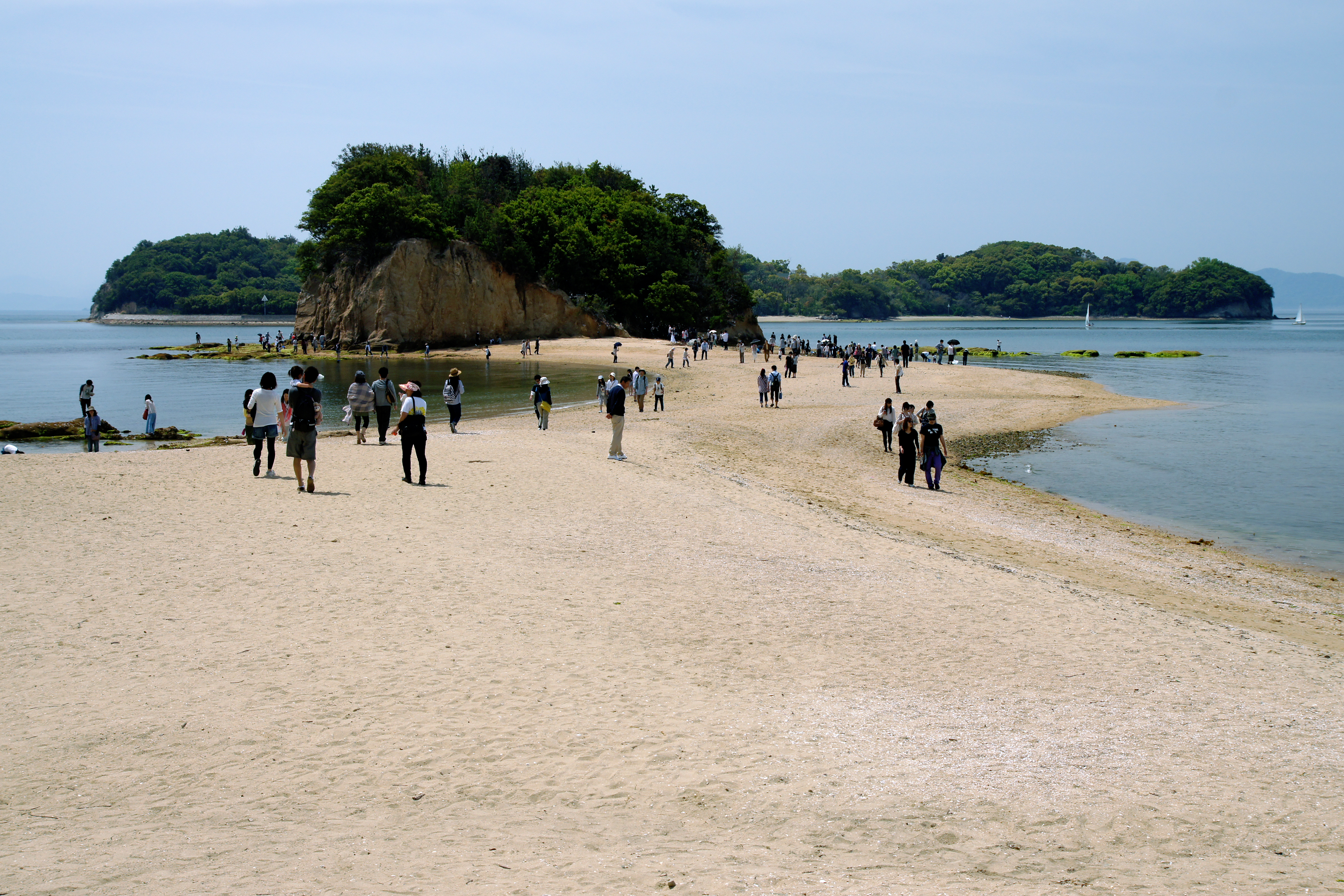 The Angel Road of Shōdo Island, Tonosho, Kagawa prefecture, Japan